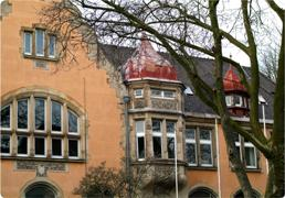 The picture shows the historical "Amtshaus" in Dortmund-Mengede.